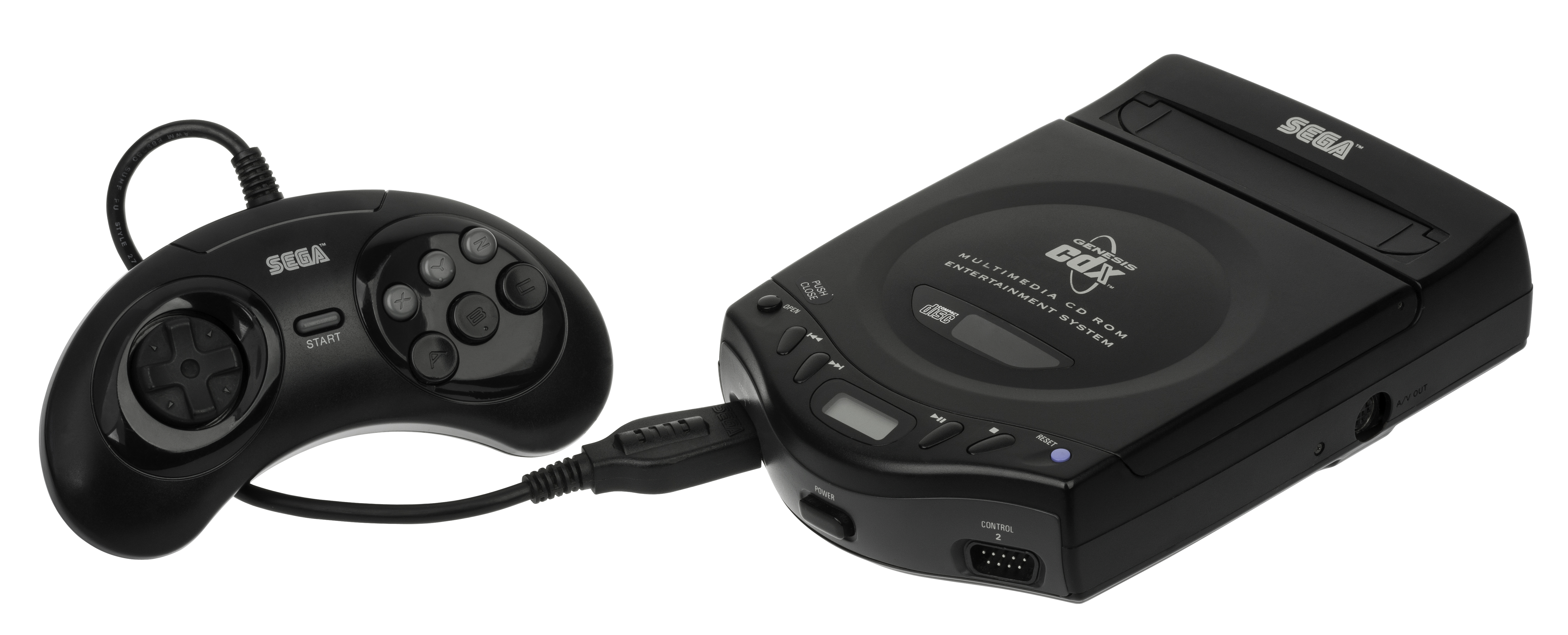 The Sega Genesis CDX (known as the Sega Multi-Mega in Europe and Japan) video game console, shown with the pack-in six-button controller. Released after the Sega Genesis and Sega CD, this high-end system incorporates both systems into a small and streamlined unit. Expensive and rare, the system could also be used as a portable CD player.